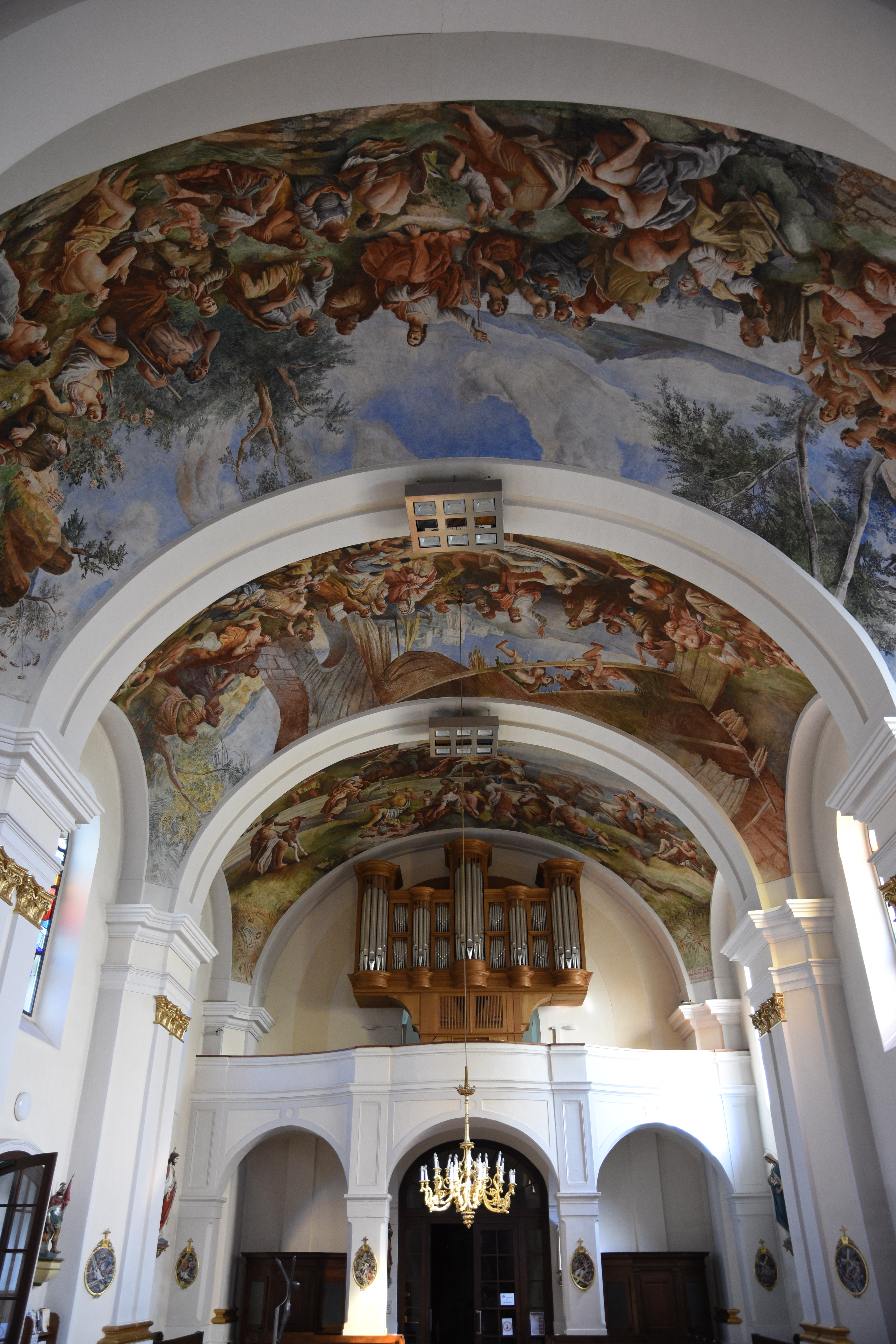 Church Großpetersdorf